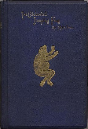 The Celebrated Jumping Frog of Calaveras County 1st edition, 1867